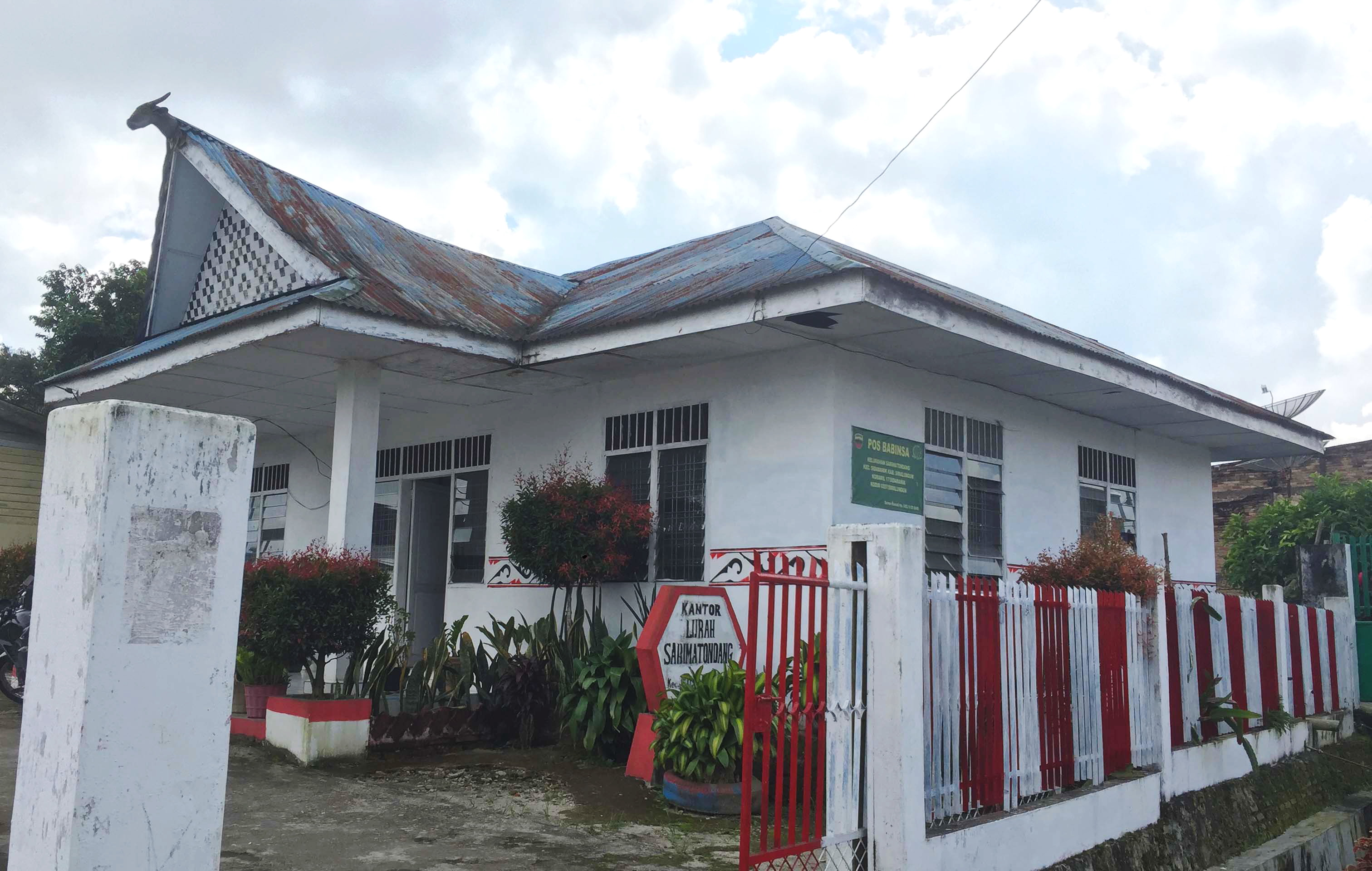 Office of Sarimatondang, Sidamanik, Simalungun